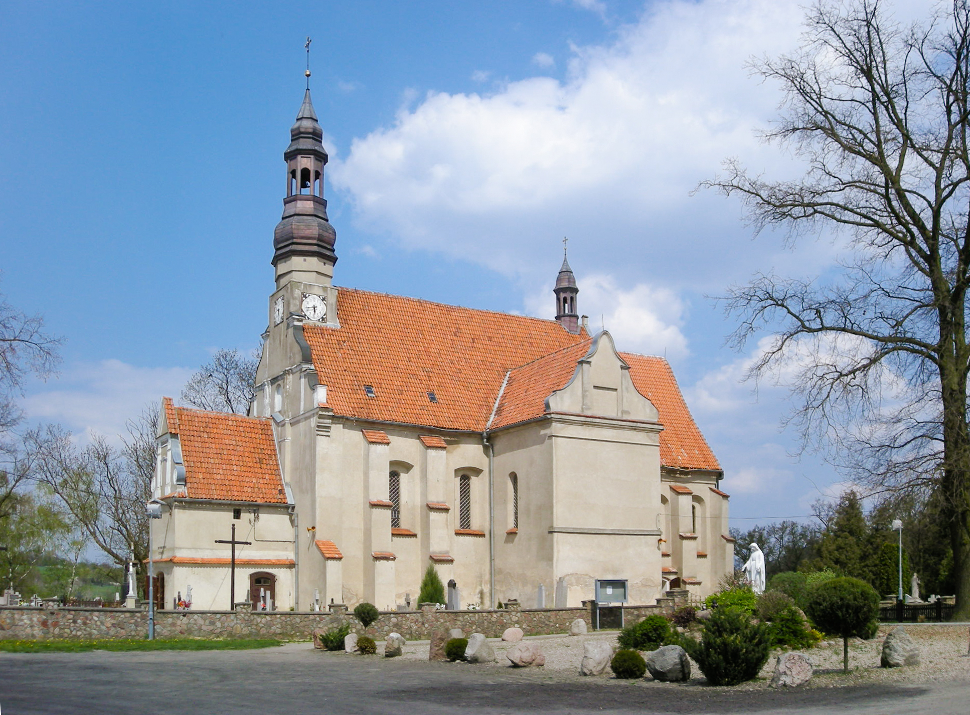 The church in Byszewo, Poland.